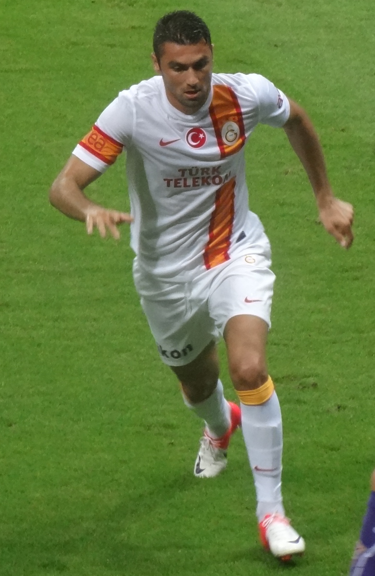 Burak Yılmaz with GS Kit against Fiorentina CFC